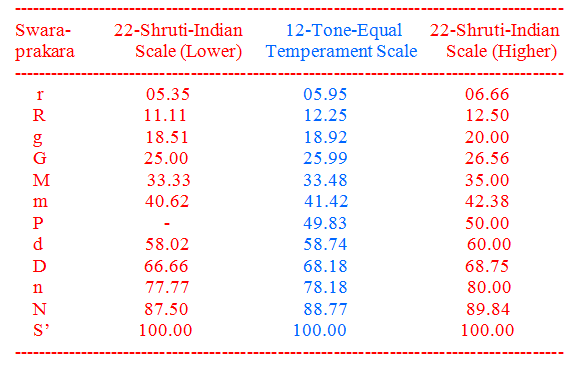 Percentage frequency above Shadja (Fundamental Tone) of the 12-Tone-Equal Temperament Scale and the 22-Shruti-Indian Scale